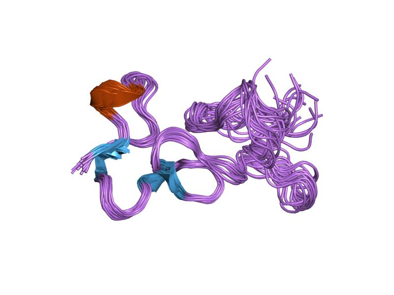 Cartoon representation of the molecular structure of protein registered with 1tle code.